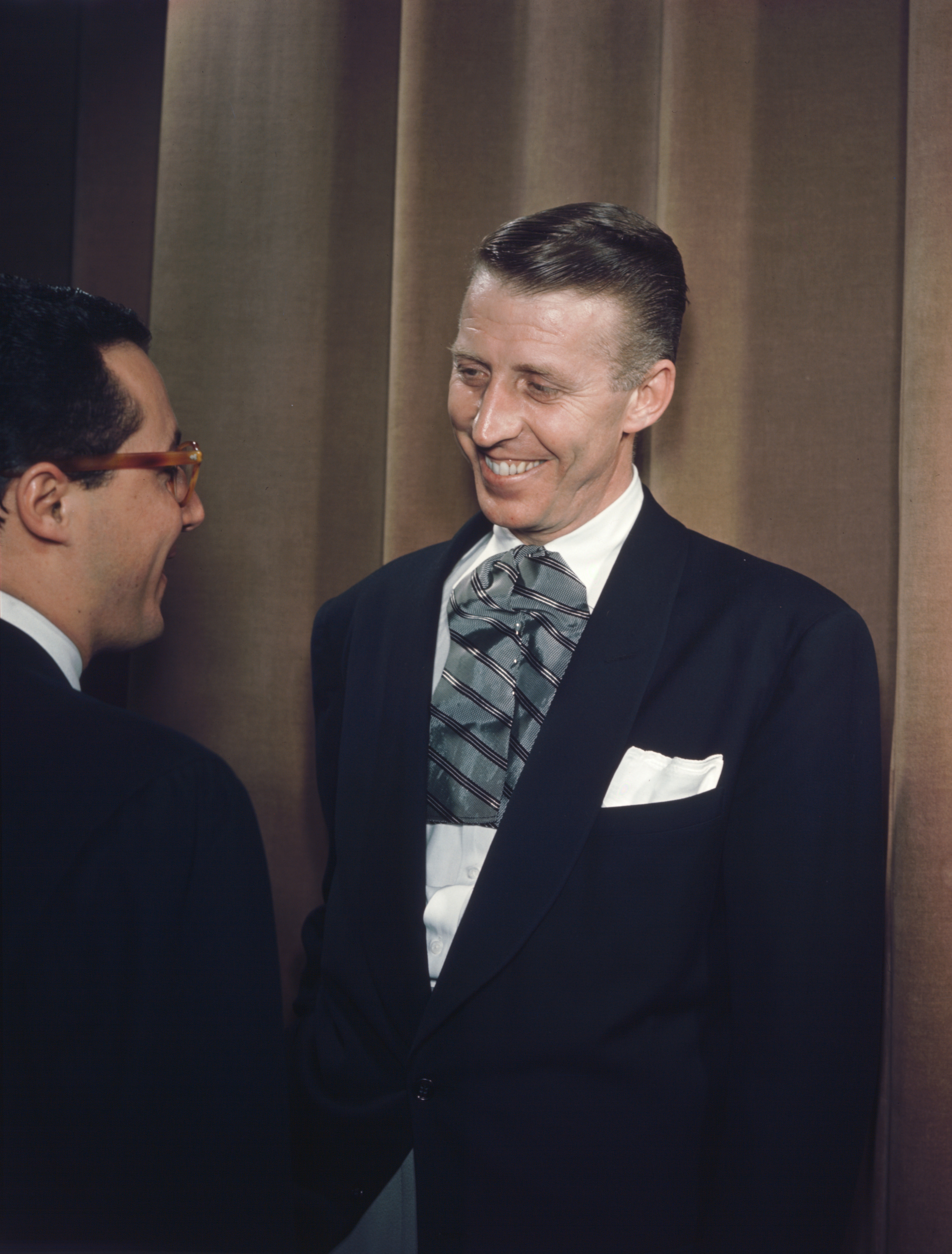 Stan Kenton and Pete Rugolo, 1947 or 1948. Photograph by William P. Gottlieb